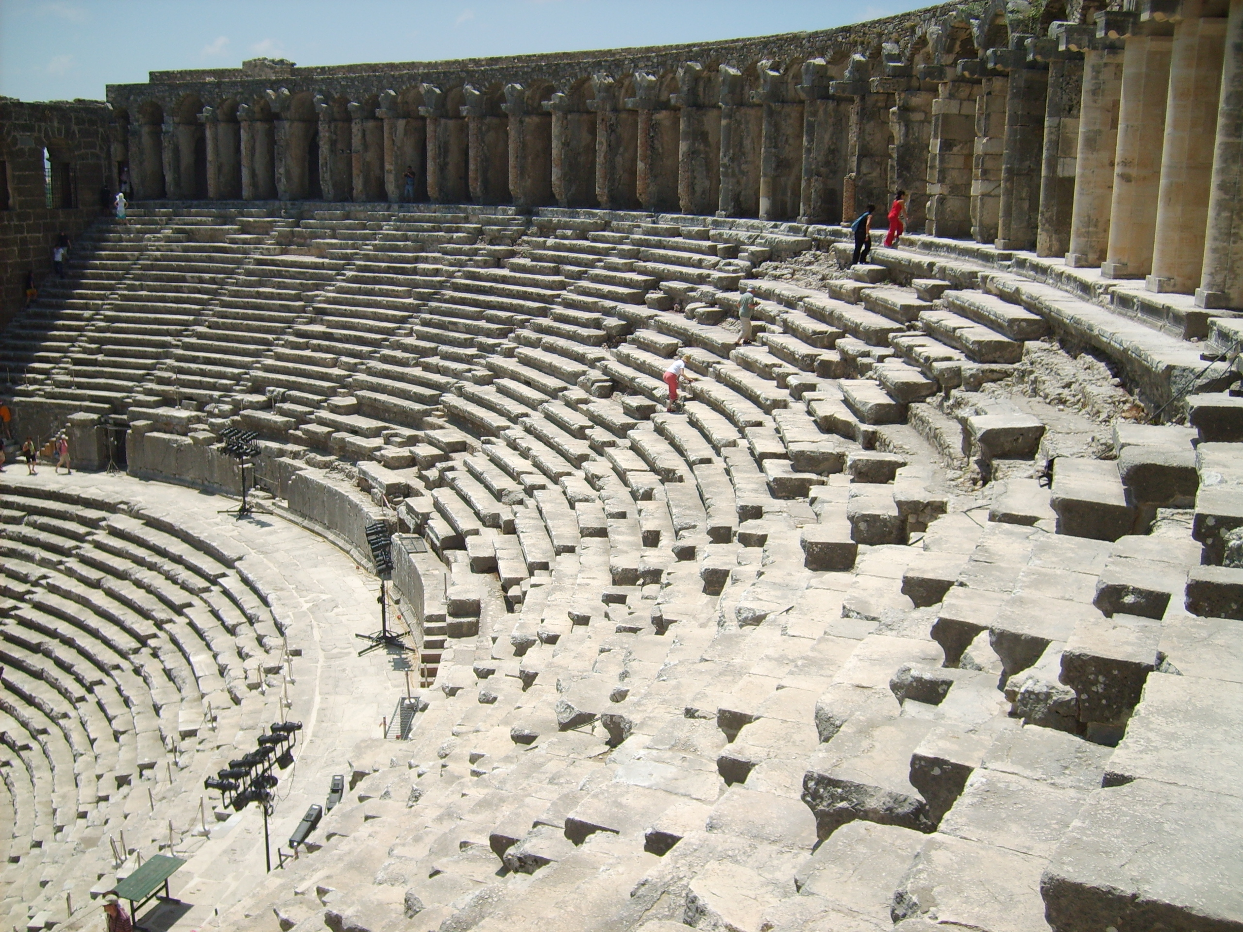 Aspendos Ancient Theater in Turkey